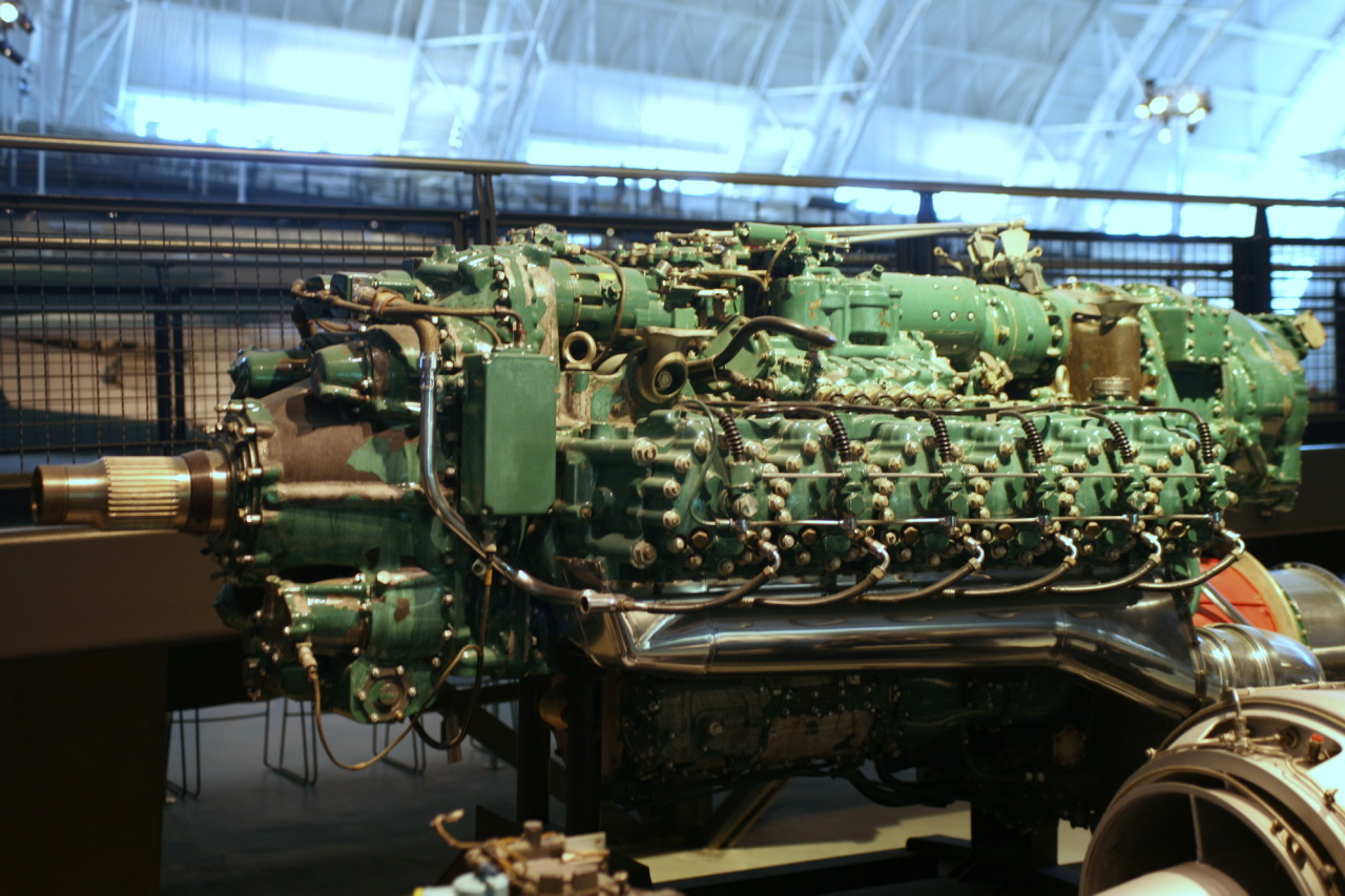 An engineering tour-de-force, the Nomad is one of the most complex aircraft engines ever built. The British military needed a high-powered engine for use in long-range aircraft at the end of World War II. Napier designed the Nomad to have the lowest possible fuel consumption by compounding a two-stroke diesel engine with a gas turbine and transmitting the power through a propeller. The Nomad II, a simplified version of the original design, appeared in 1951 and was intended for the four-engine Avro Shackleton long-range patrol bomber. However, a single Nomad II flew only briefly, on the nose of an Avro Lincoln bomber. Napier cancelled the program in 1955 because the Nomad could not compete with gas turbine engines.